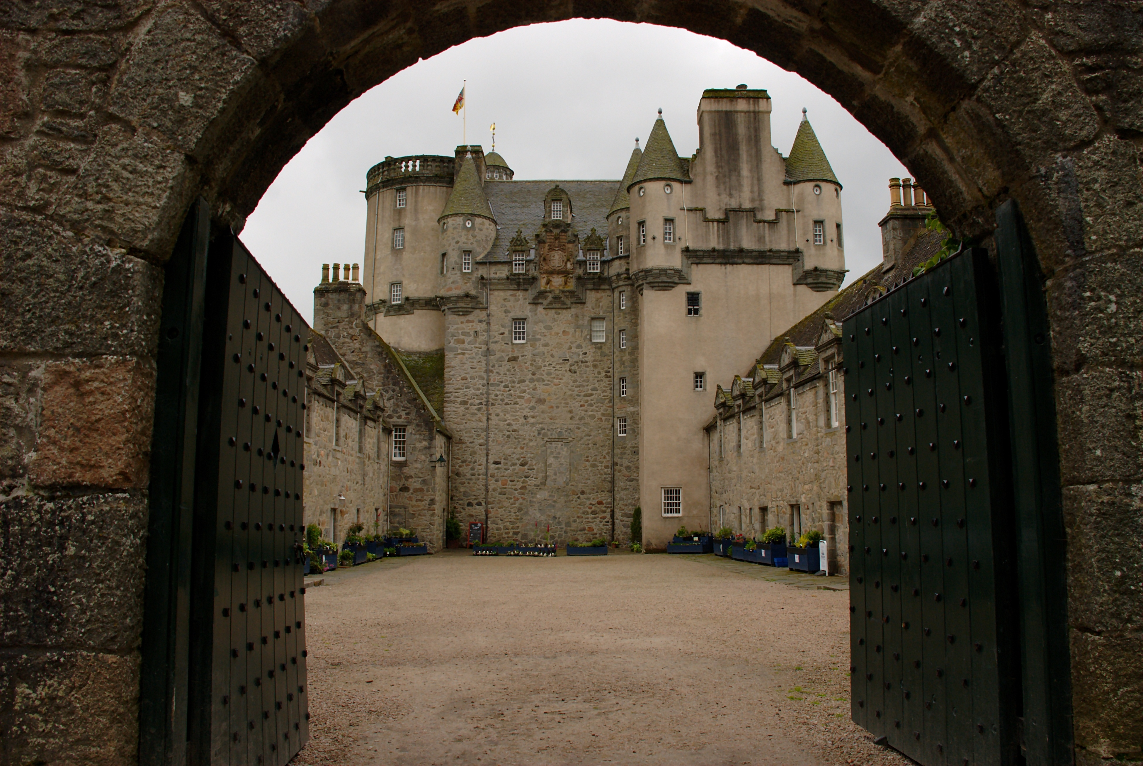 Looking through the rear gate into the rear courtyard at Castle Fraser